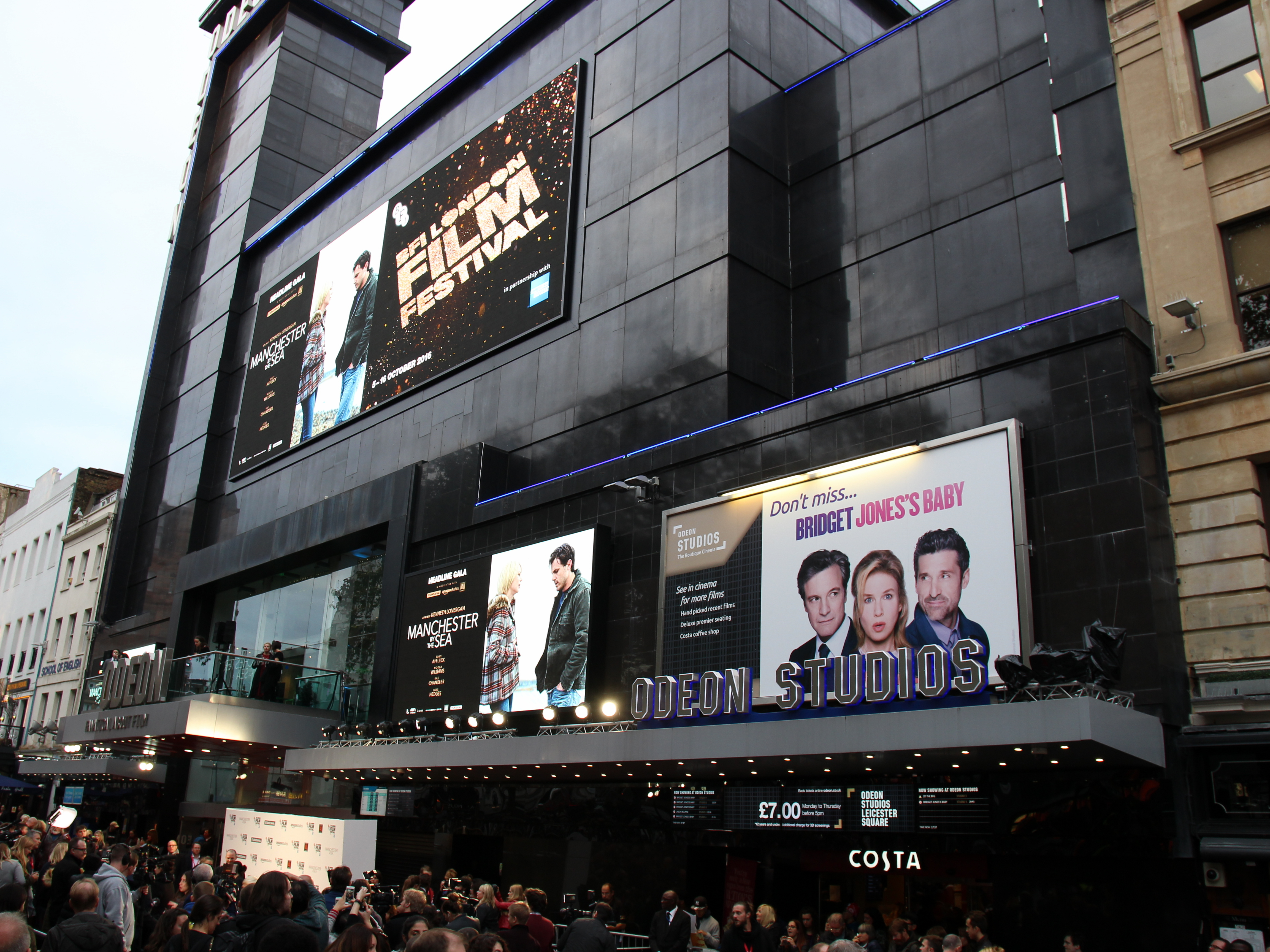 Odeon Leicester Square at the BFI London Film Festival